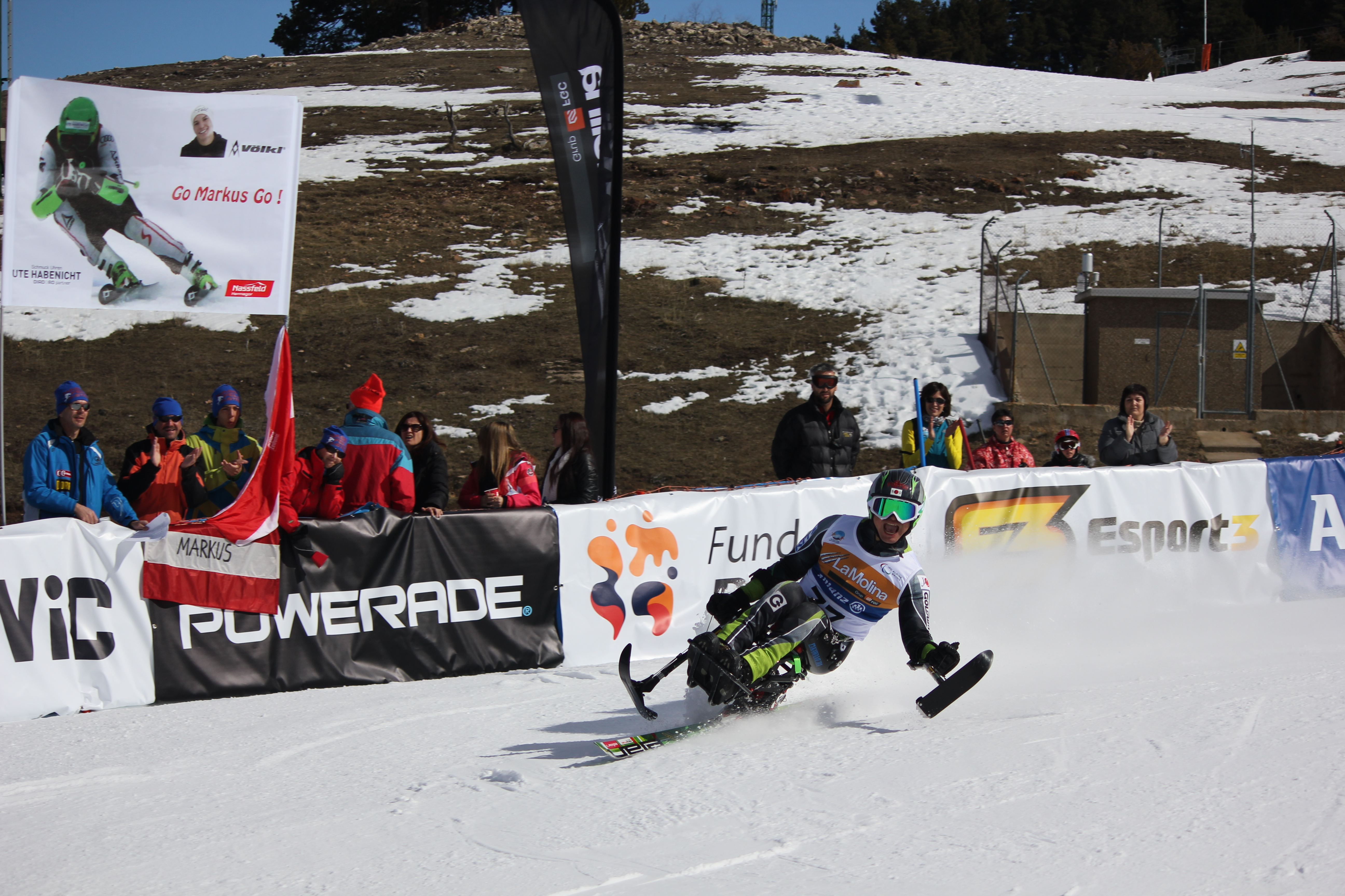 Taiki Morii finishing his run at the Super G and celebrating victory. 2013 IPC Alpine World Championships in La Molina Spain.